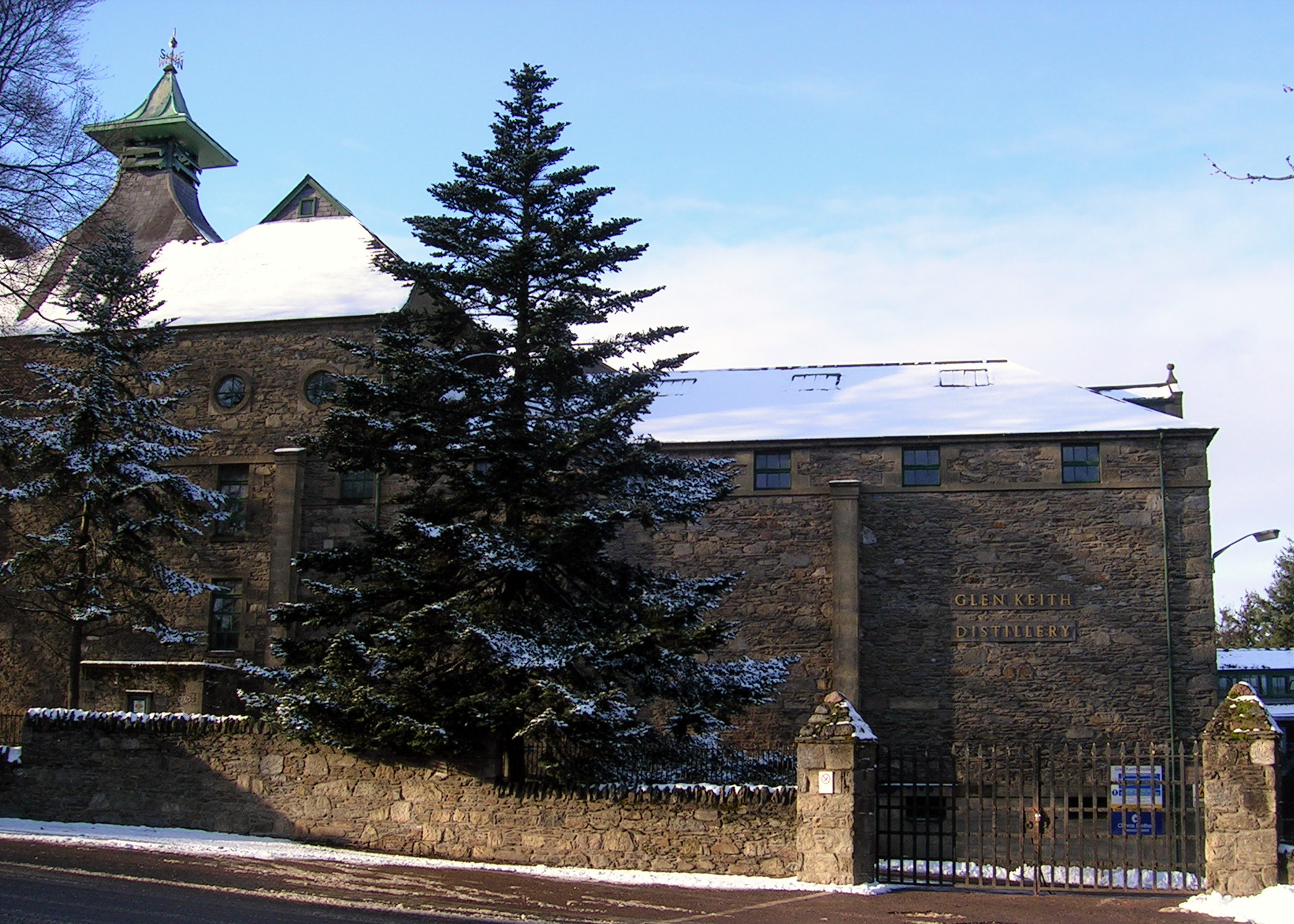 A picture showing the main entrance and facade of Glen Keith Distillery in the Moray town of Keith, Scotland, UK.